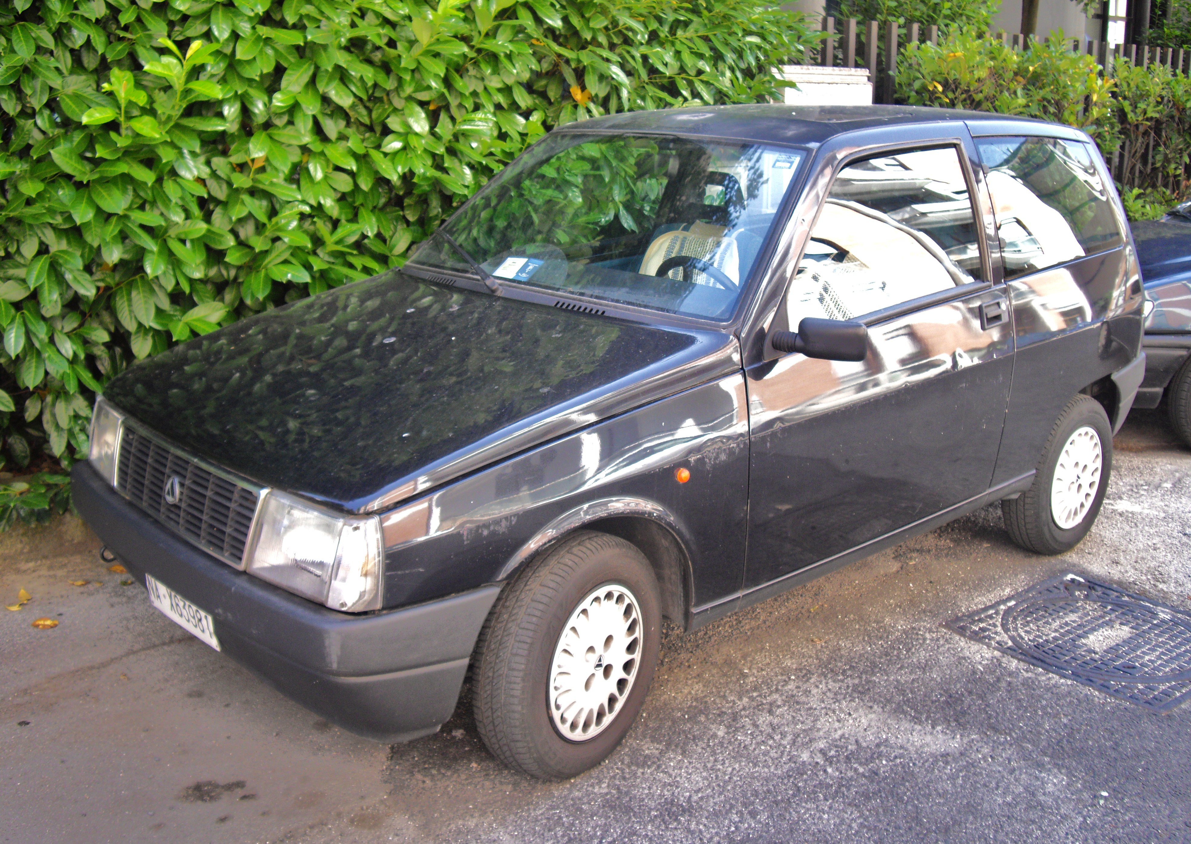 Autobianchi Y10